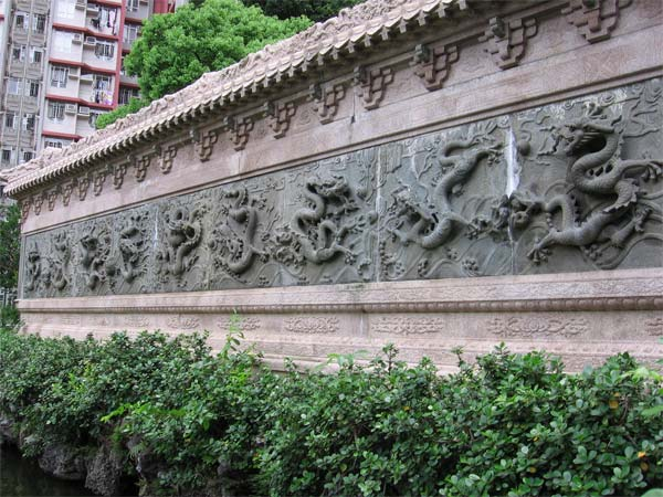 The Nine Dragon Wall at Wong Tai Sin Temple, Hong Kong Copyright © 2006 Simon Martin--Callmesim 17:21, 24 July 2006 (UTC) Subject to disclaimers. Subject to disclaimers.